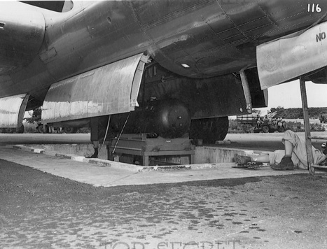 This shows "Little Boy" being raised for loading into the Enola Gay's bomb bay. (Photo from U.S. National Archives, RG 77-BT)